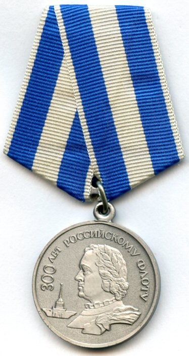 Russian medal. Ministry of Defense Medal for the 300th Anniversary Of The Russian Navy